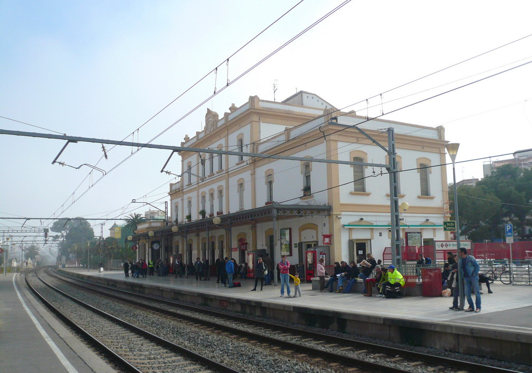 Sitges railway station.